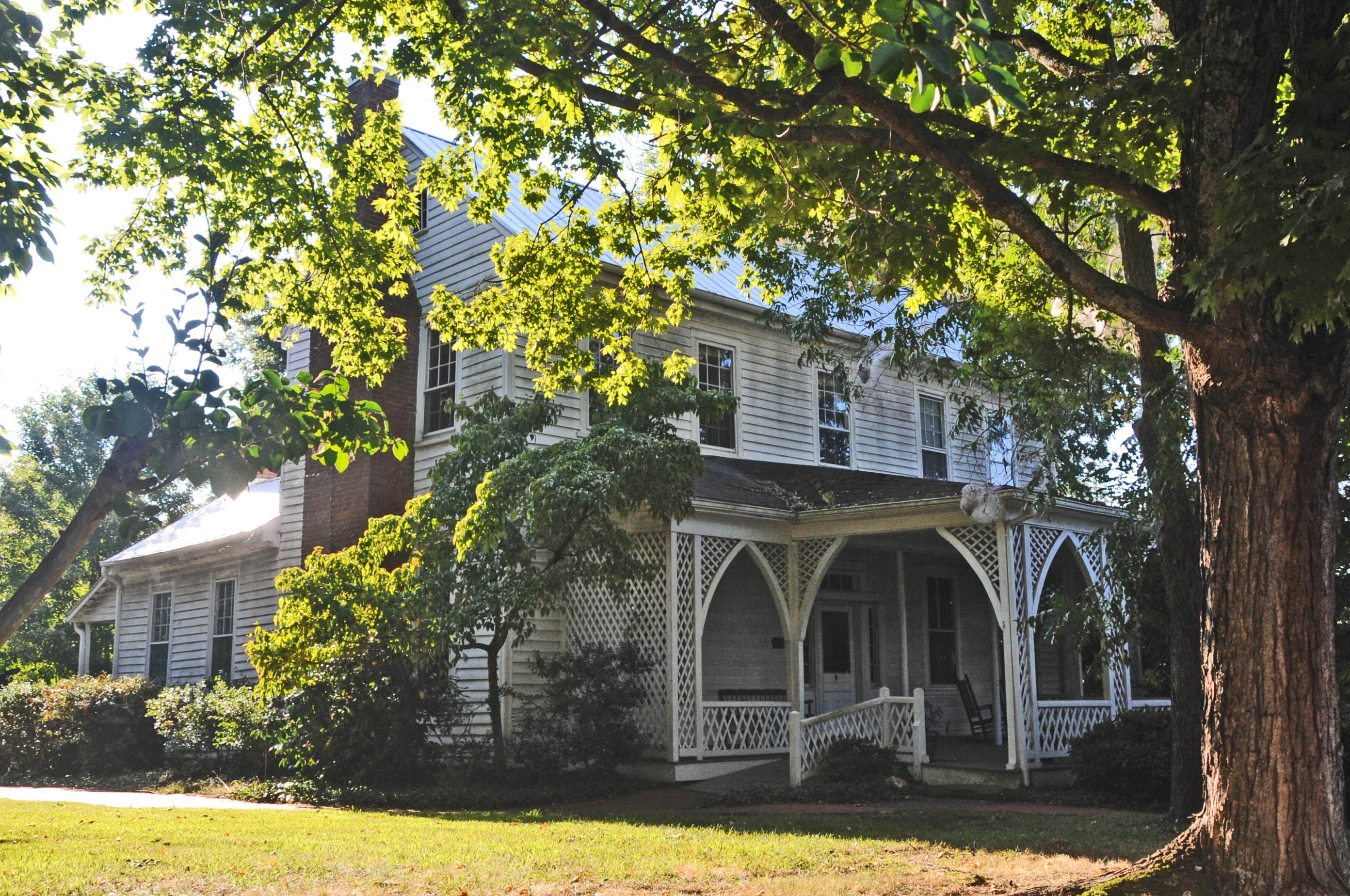 HOME OF HENRY A LONDON, POLITICIAN, LAWYER, AND WRITER OF THE1901 “LONDON LIBEL LAW”; BUILT 1830